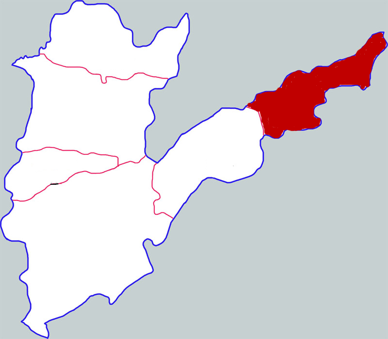 Location of Taiqian county in Puyang city, China